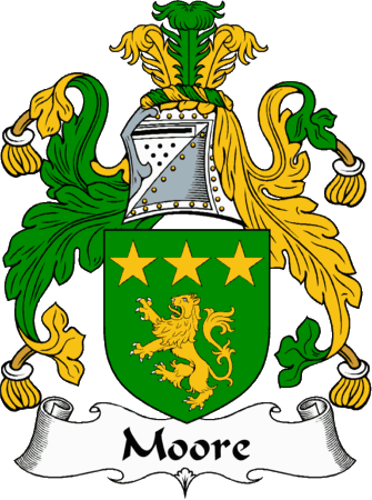 Moore family coat of arms